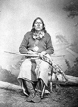 White Bear (Sa-tan-ta), a Kiowa chief; full-length, seated, holding bow and arrows. Photographed by William S. Soule, 1869-74.